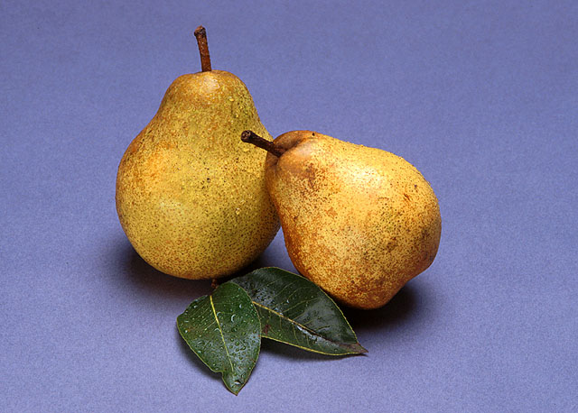 Blake's Pride pears: tasty, high-quality, fire-blight-resistant.